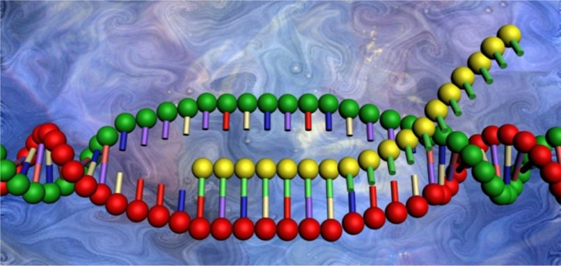 This is a 3D representation of the synthesis of an ARN from ADN. I made it by myself, so there isn"t any problem of copyright